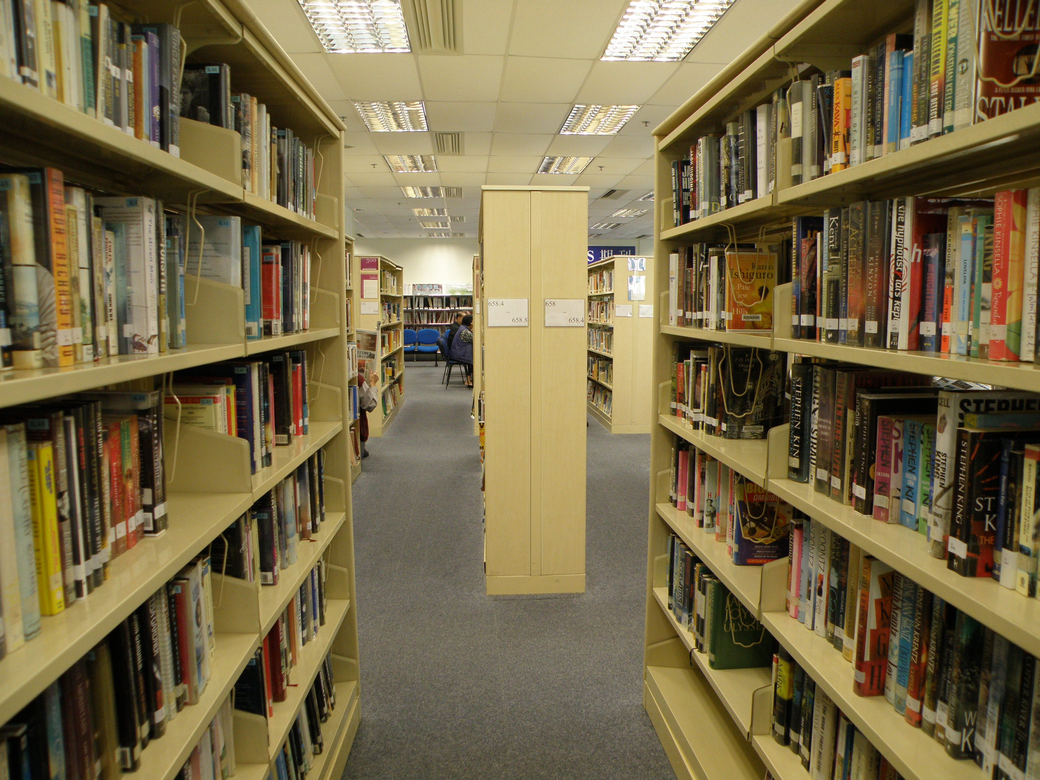 San Po Kong Public Library in San Po Kong, Hong Kong.